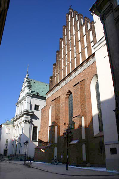 Bazylika archikatedralna św. Jana Chrzciciela w Warszawie with the permission of the authors Marek and Ewa Wojciechowscy from [